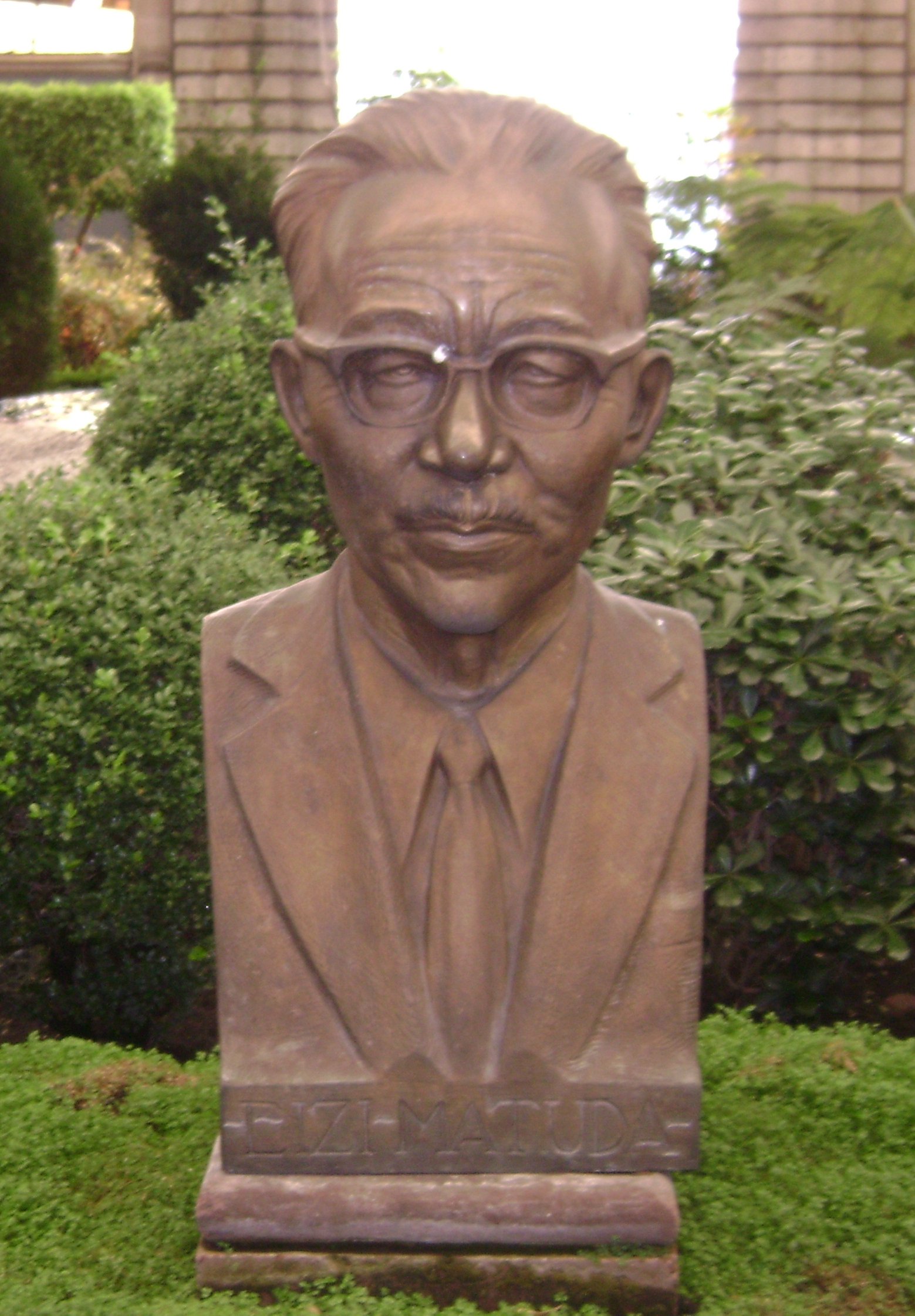 Eizi Matuda